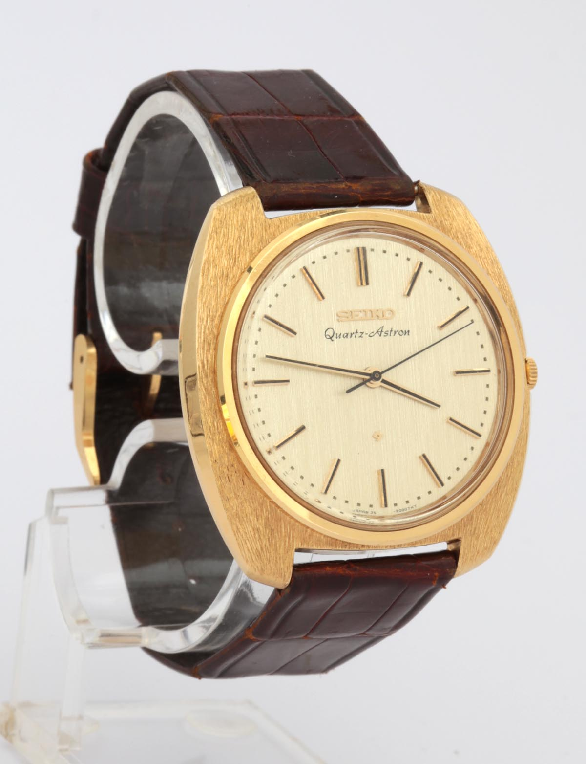 Quartz wristwatch Astron Cal. 35A, Seiko, Japan, 1969 First commercial quartz watch, only 100 copies sold at Tokyo on christmas 1969. (Deutsches Uhrenmuseum, Inv. 2012-047)